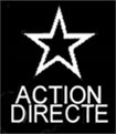 This is the logo of Action Directe, the former French Marxist armed group.